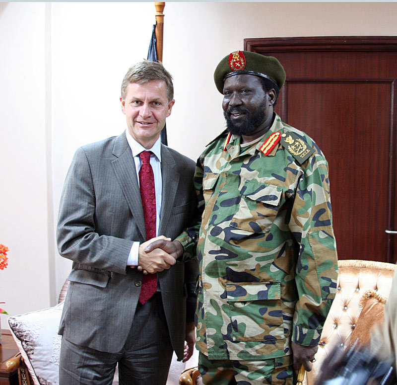 Erik Solheim, Norwegian Minister of the Environment and International Development, meeting with Salva Kiir, President of South Sudan and Vicepresident of Sudan, during a visit to Sudan. Norway is the largest donor country of development aid to Sudan to support the CPA (Comprehensive Peace Agreement) between the North and the South of the country.